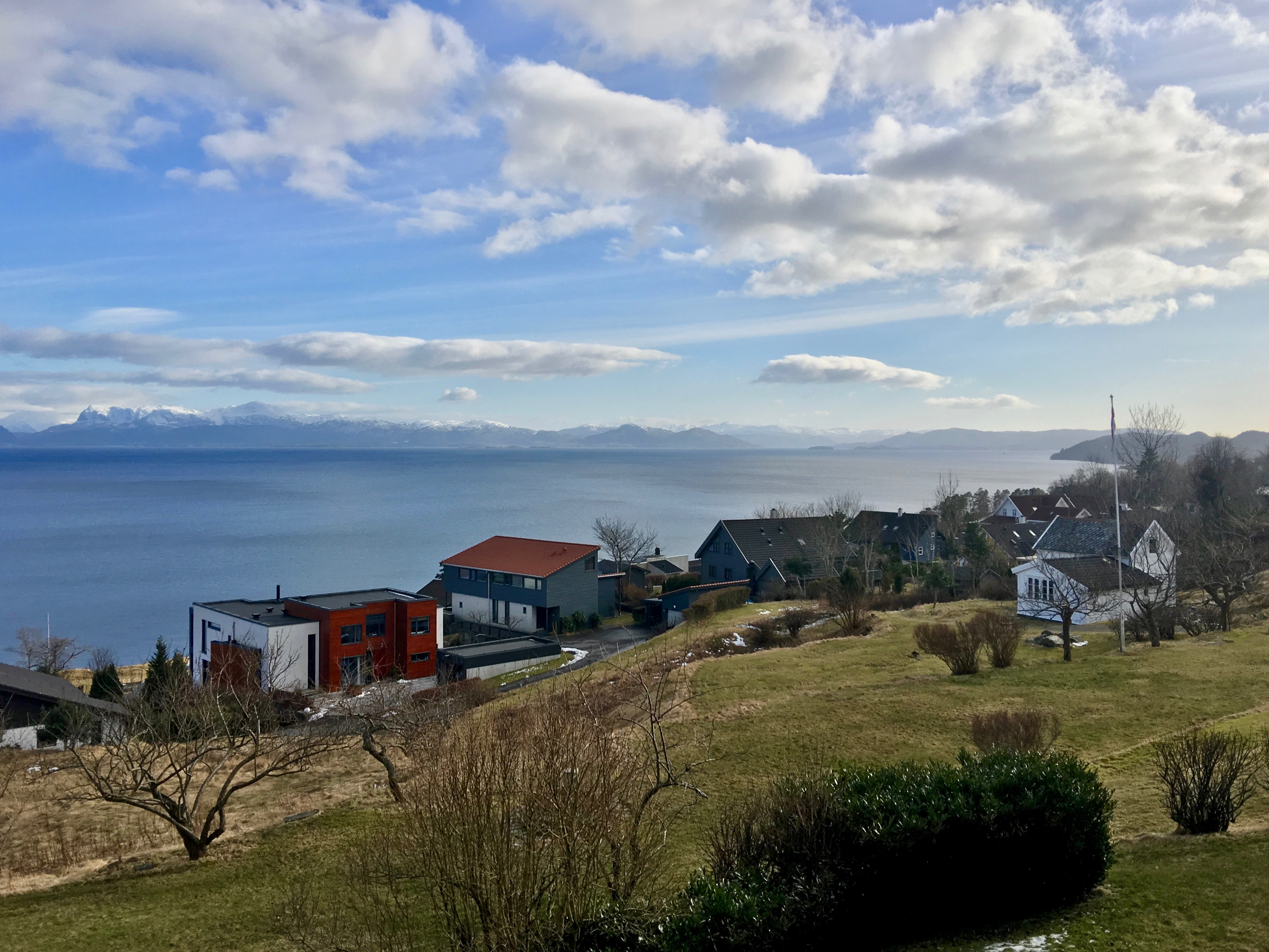 Fusafjorden, view towards south east from Bjørnefjorden Gjestetun hotel, Osøyro, Hordaland, Norway. Photo 2018-03-19.